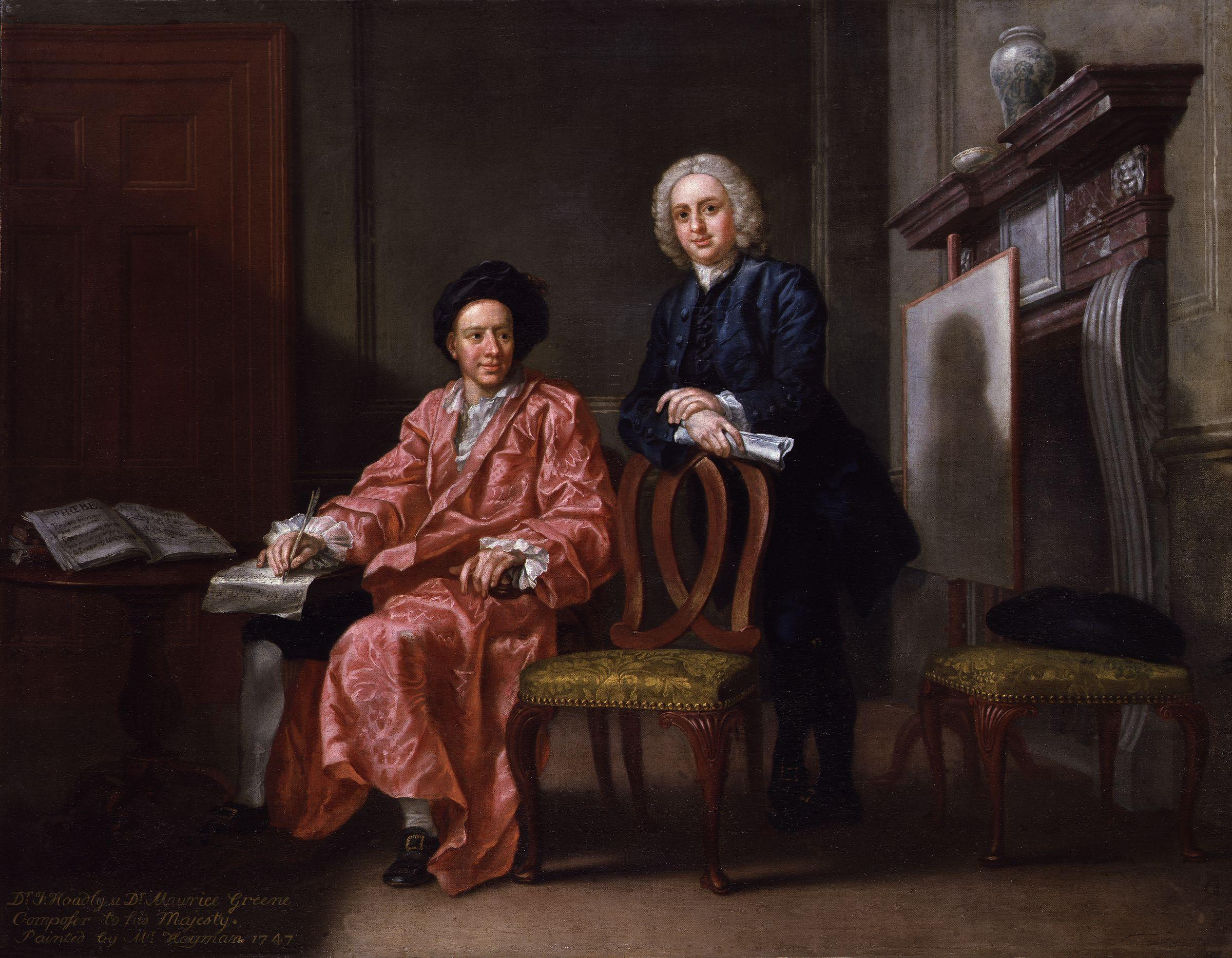 Maurice Greene; John Hoadly, by Francis Hayman. All images in this batch have a known author, but have manually examined for strong evidence that the author was dead before 1939, such as approximate death dates, birth dates, floruit dates, and publication dates.